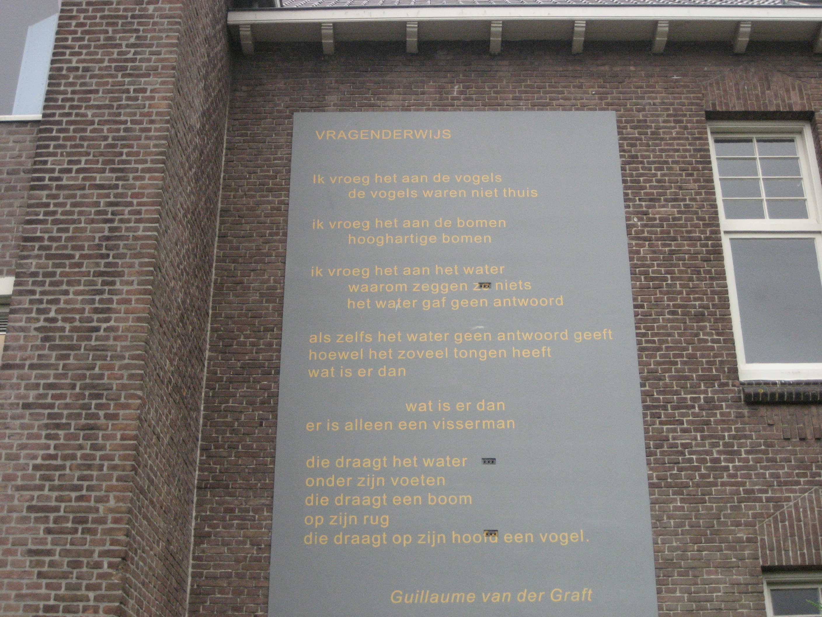 Visser 't Hooft Lyceum, Kagerstraat 1, 2334 CP Leiden (The Netherlands). Wall poem ("Vragenderwijs") by Guillaume van der Graft.